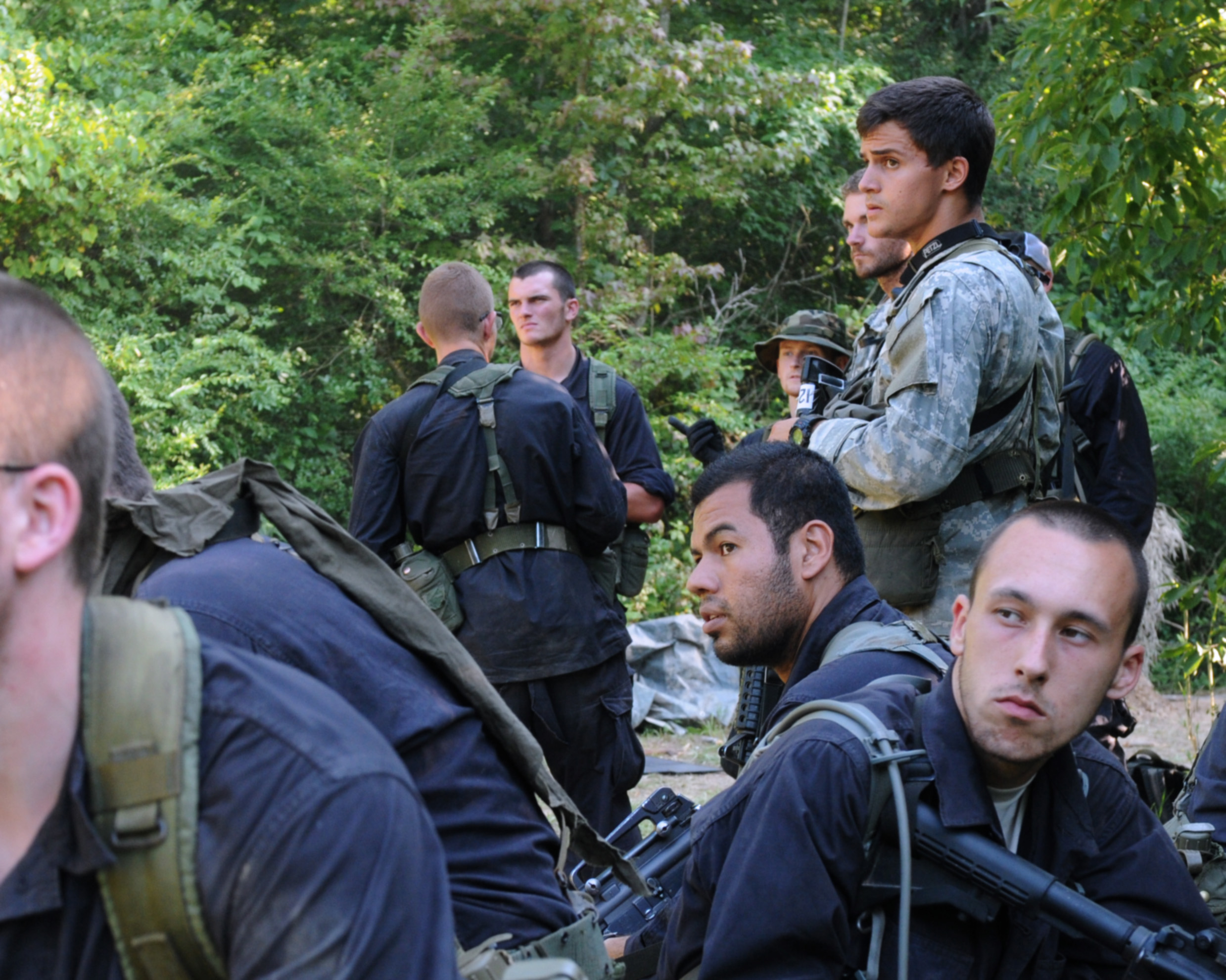 Two U.S. Army Special Forces (SFQC) students (digital pattern uniforms) and a role player (2LT Jarren Thomas - wearing woodland pattern boonie hat), lead guerilla fighters (black uniforms) in pre-mission rehearsals during an iteration of Robin Sage, the SFQC culmination exercise taught by F Company, 1st Battalion, 1st Special Warfare Training Group (Airborne).